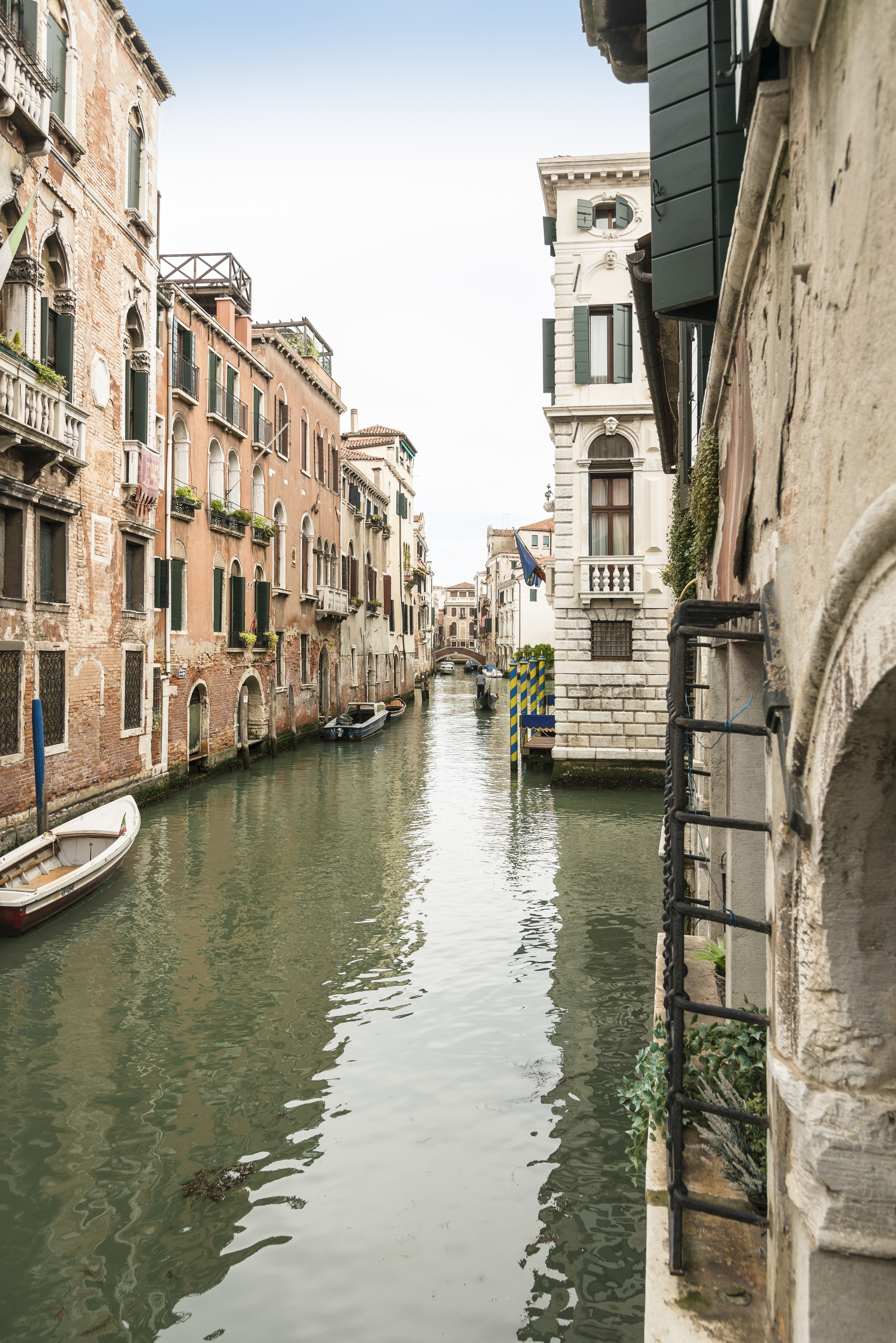 Rio di Santa Marina, in Venice. View from Ponte del Cristo to Ponte Conzafelzi